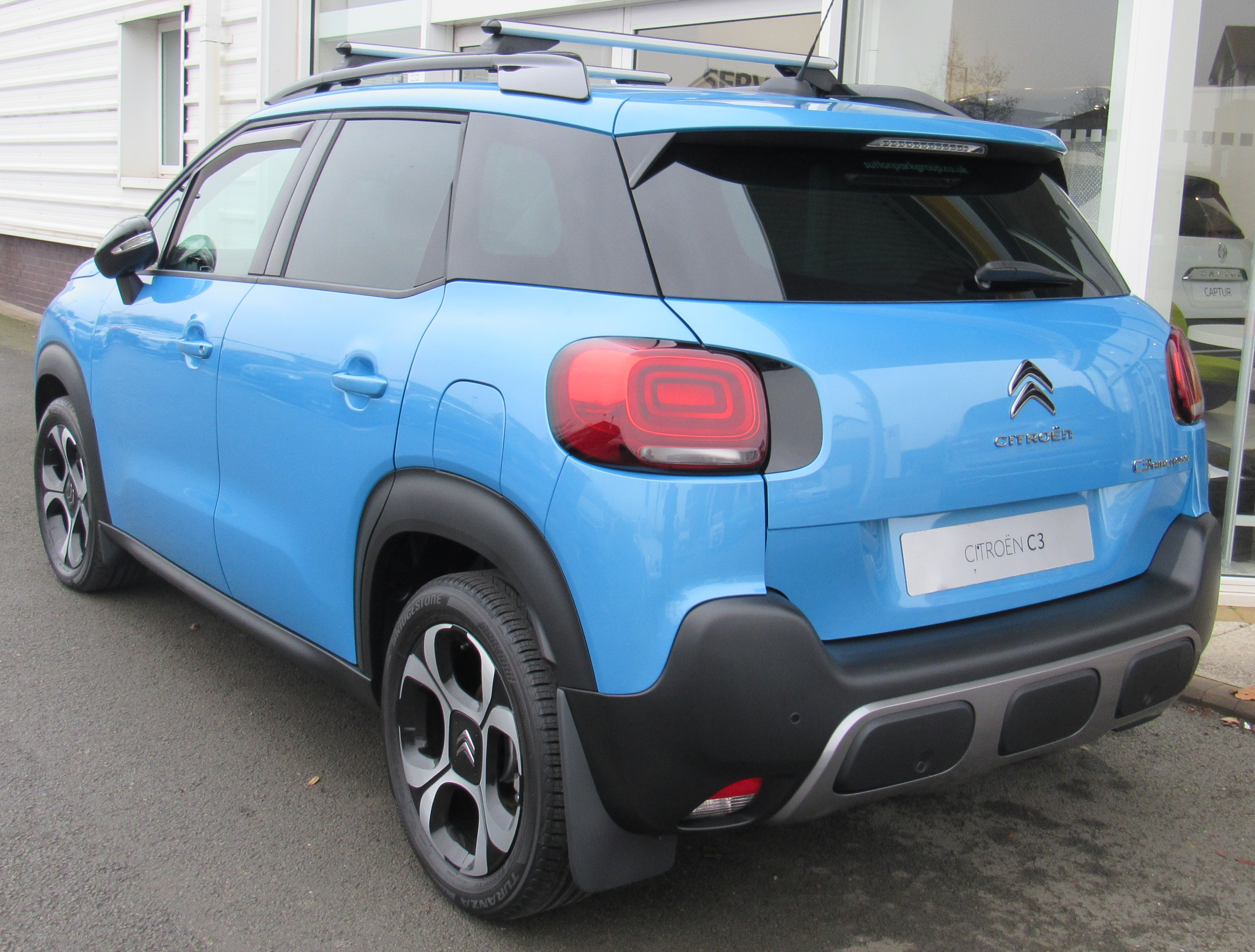 2017 Citroen C3 Aircross PureTech 1.2 Rear Taken in Leamington Spa